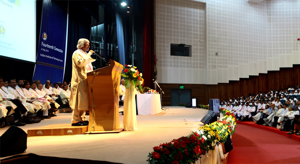 Former president of India and Bharat Ratna Dr A P J Abdul Kalam addresses the 14th Convocation ceremony at the Indian Institute of Technology Guwahati.